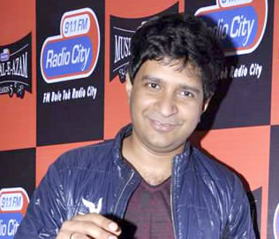 KK at Radio City 91.1 FM's Musical-e-Azam